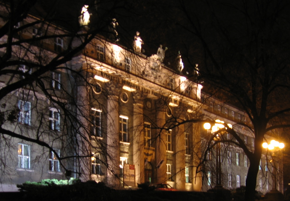 Wrocław, Poland, Polish State Railways regional headquarter of Lower Silesia, Joannitów street, between Sucha & Dyrekcyjna streets.